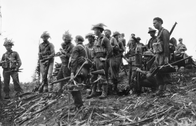 Australian infantrymen from the 25th Infantry Battalion prior to their attack on Pearl Ridge, Bougainville, 30 December 1944